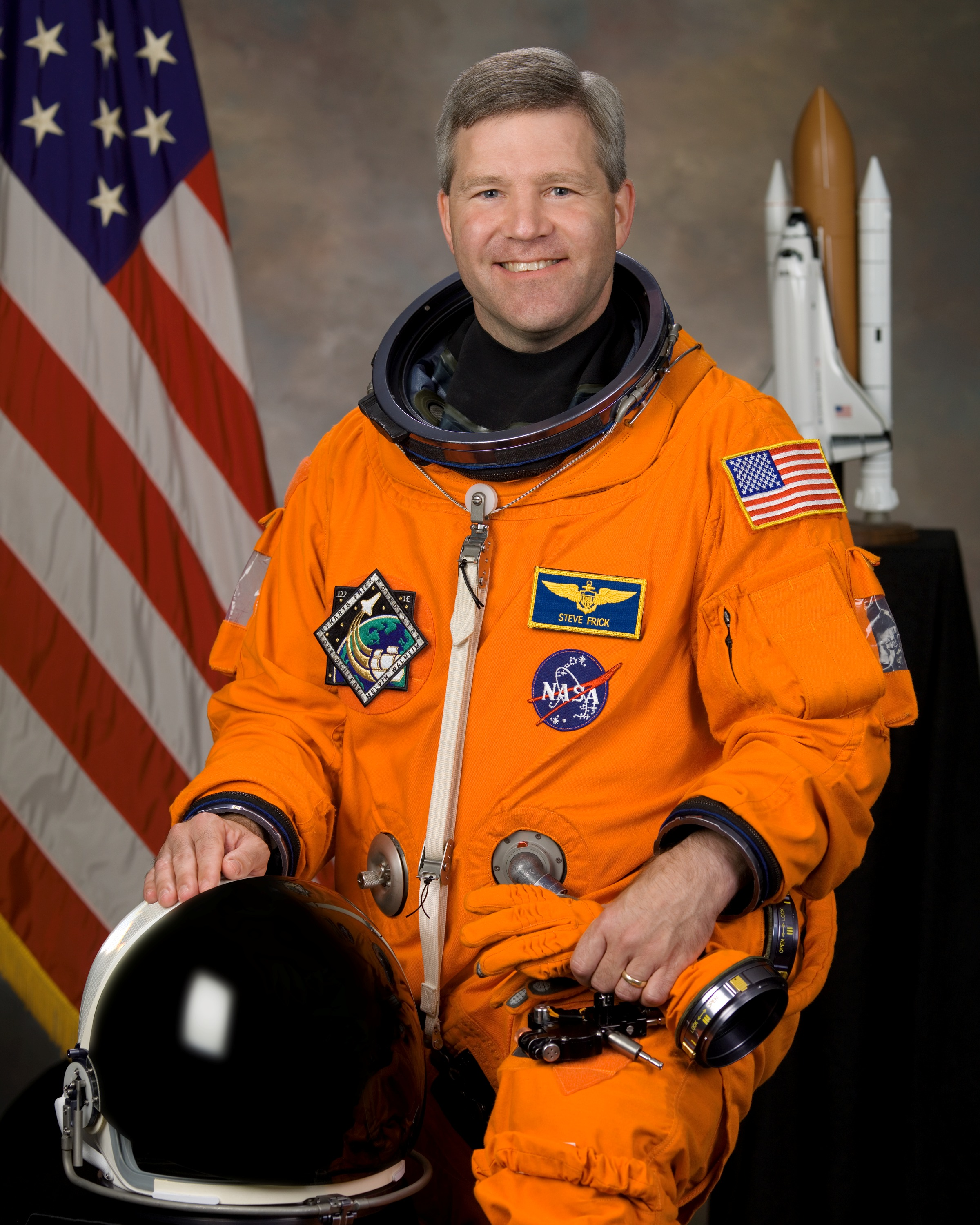 Official portrait image of NASA astronaut Stephen Frick, commander of STS-122.